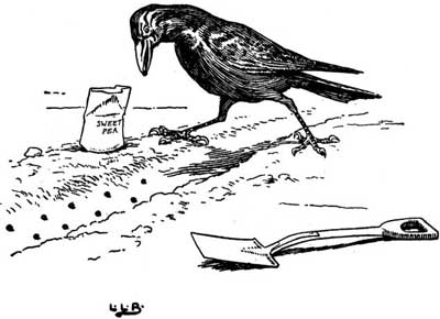 (Removed after reusableart request.)